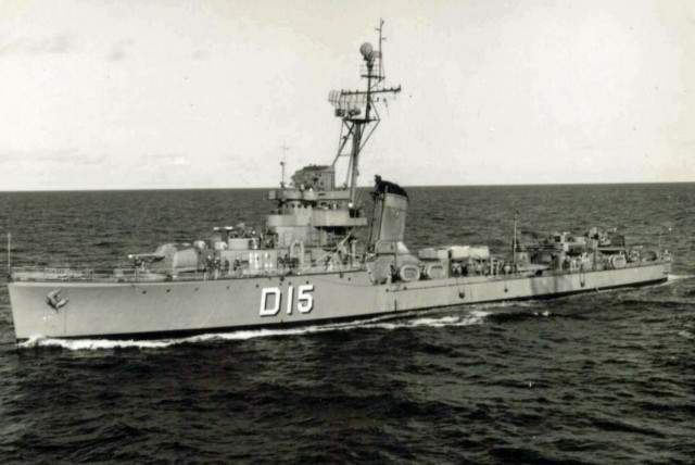 Naval ship of Brazil.